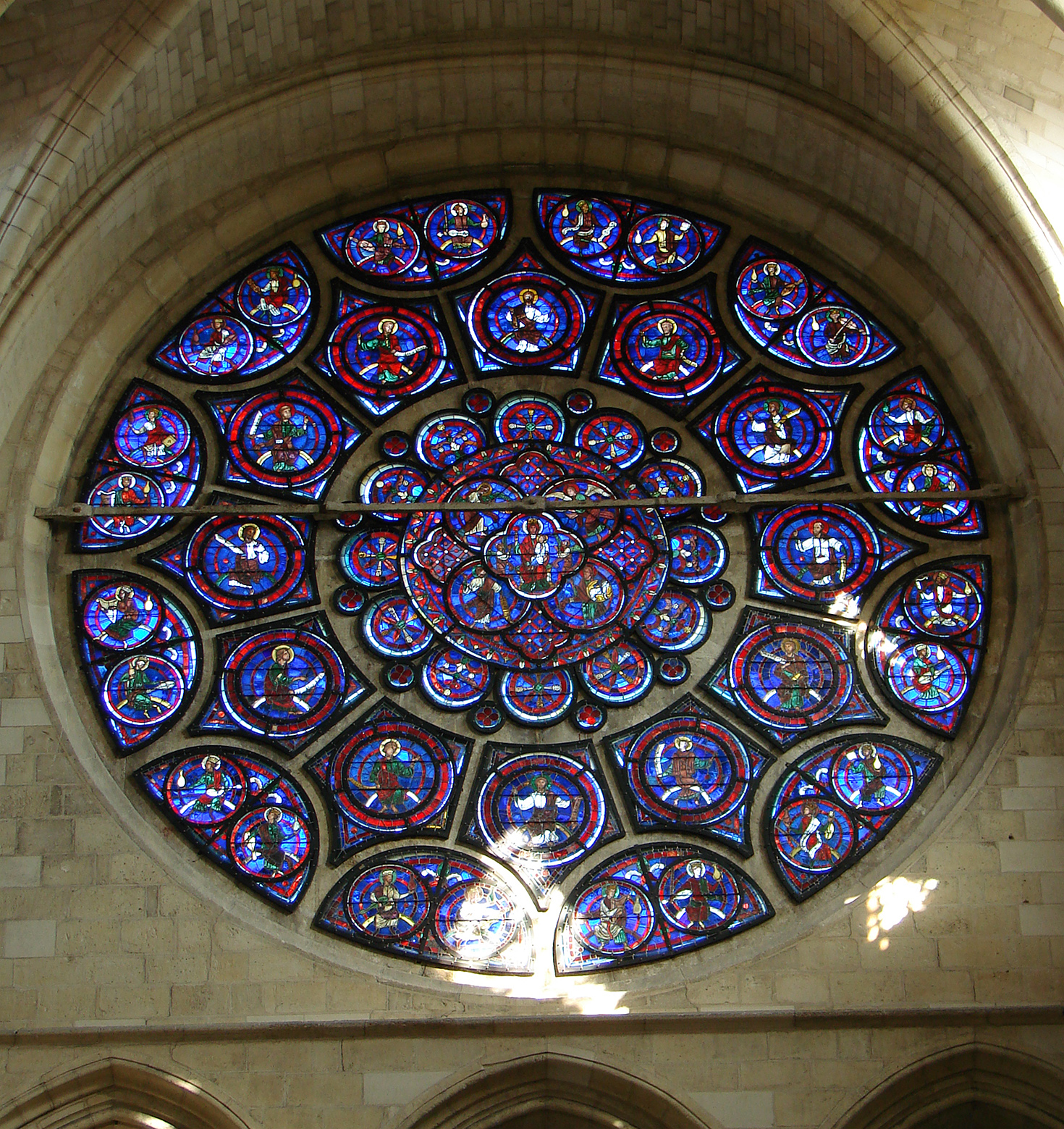 2=The eastern rose window in the choir of Laon Cathedral. This window incorporates the following: Glory to the Virgin, Rose of the Church and of the Apocalypse (Revelations). The window dates from the first part of the 13th century, probably from before 1215. Badly damaged when the powder magazine of nearby Laon Fortress was blown up during the Franco-Prussian war of 1870, it was restored afresh in 1989.